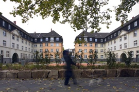 The picture shows the Oesterholzstraße in Dortmund.